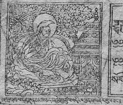 The Tibetan Astromomer Norsang Gyatsho from am Tibetan BLockprint of the Vaidurya dkar po (1685)